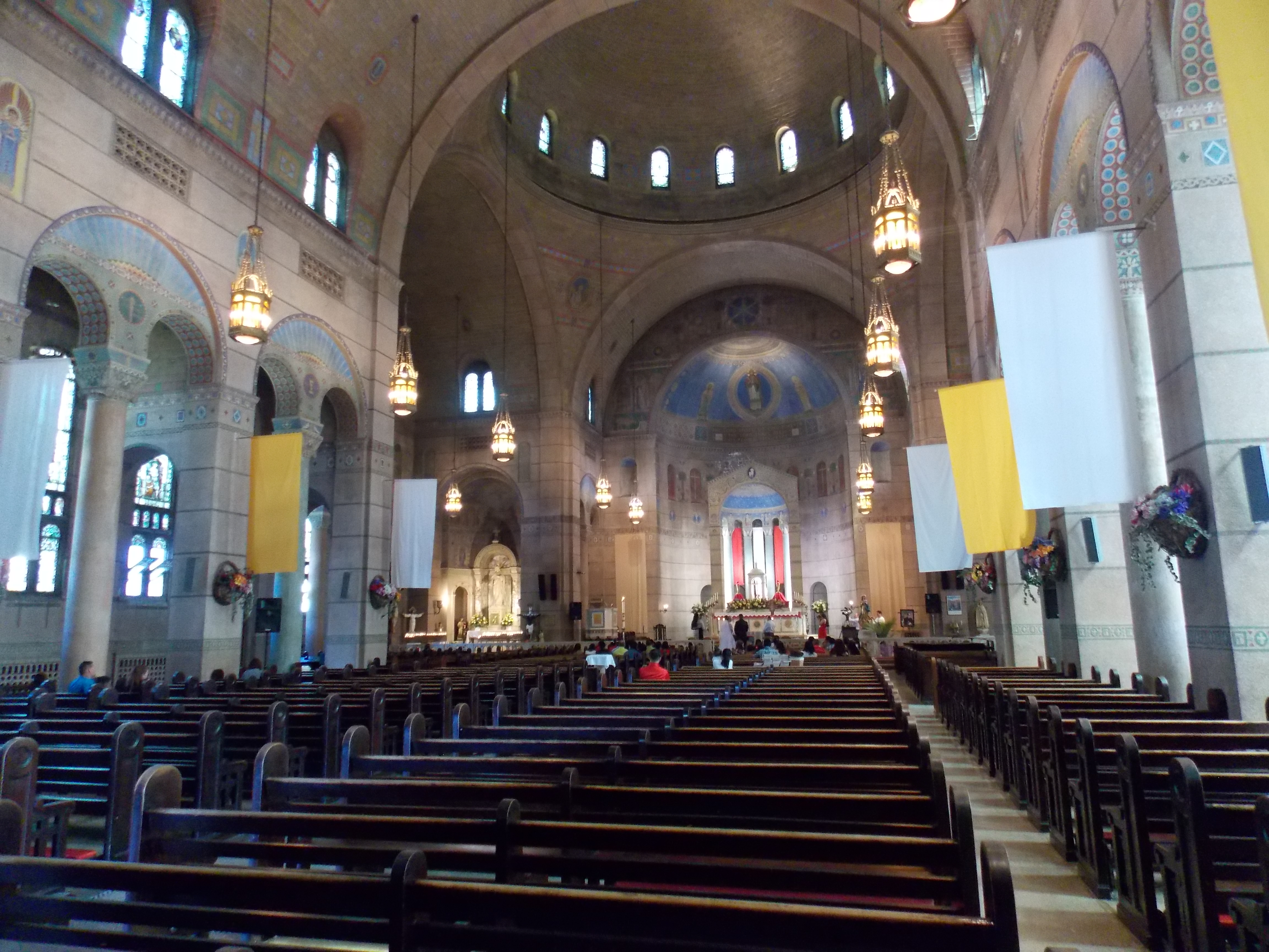 The interior of the Shrine of the Sacred Heart in the Columbia Heights neighborhood of Washington, DC.